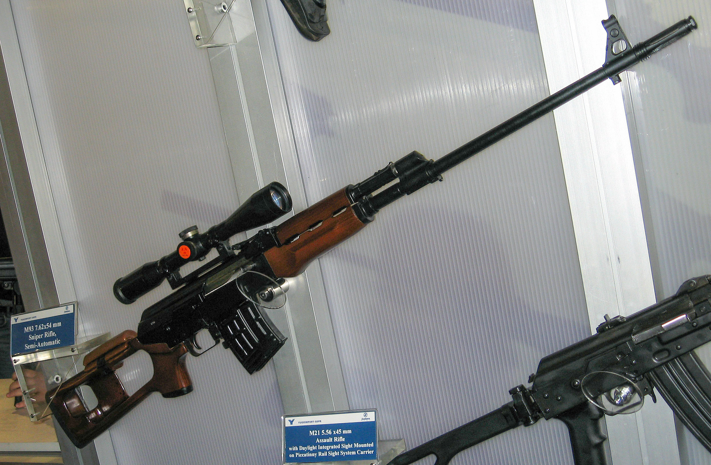 Zastava M91 7.62x54mmR, Sniper Rifle, Semi-Automatic